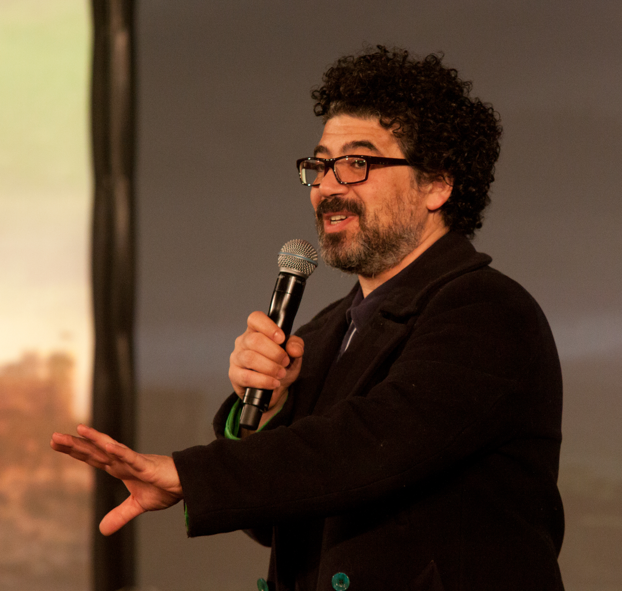 SFB Events SF Ball 2013: Chase Masterson: David Gerrold:Miltos Yerolemou:Diane Duane: Lolita Fatjo: Peter Morwood:Armin Shimerman: Max Grodenchik: Robert Rankin: J.A. Saare:Fwah Storm